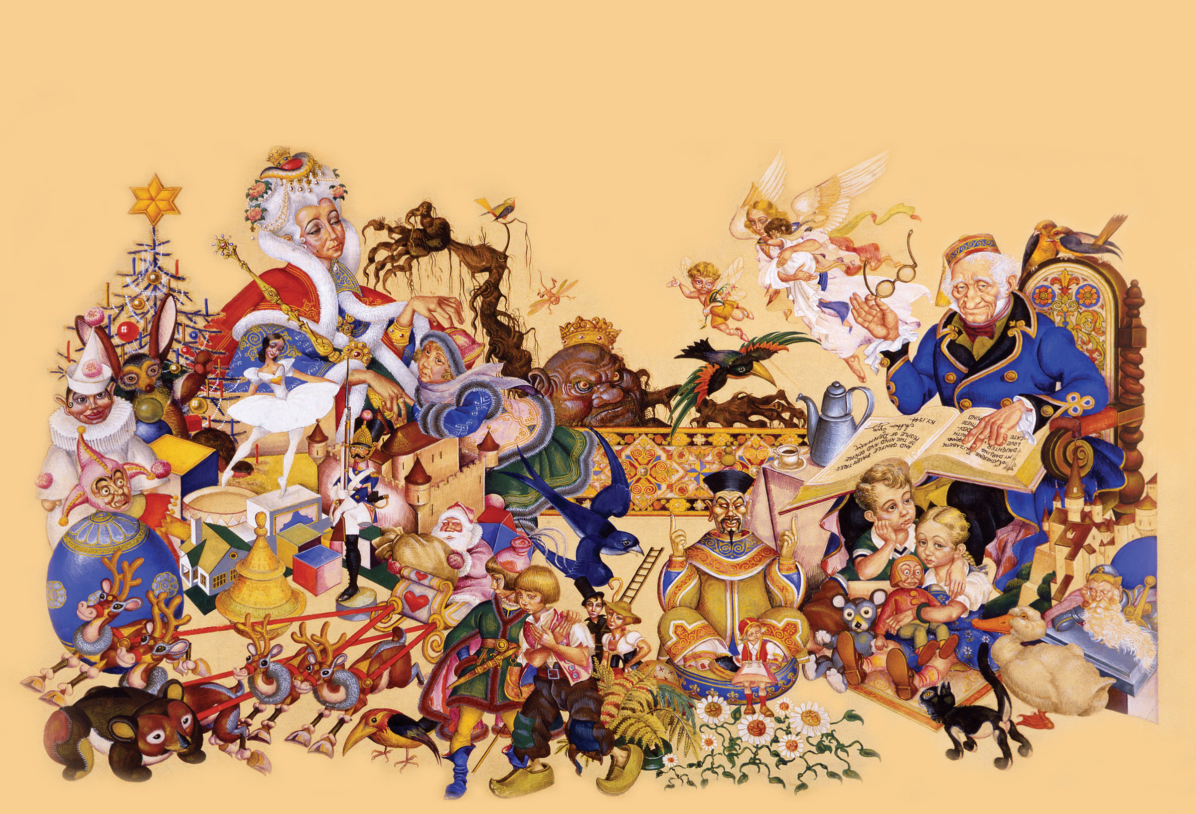 Inside cover illustration by Arthur Szyk (1894-1951) for Andersen's Fairy Tales (Grosset & Dunlap, 1945). Fanciful image includes familiar Hans Christian Andersen fairy tale characters such as the Steadfast Tin Soldier, the Snow Queen, and The Emperor and the Nightingale. The artist's signature and dedication to his granddaughter is in the book on the lap of the elderly gentleman to the right.